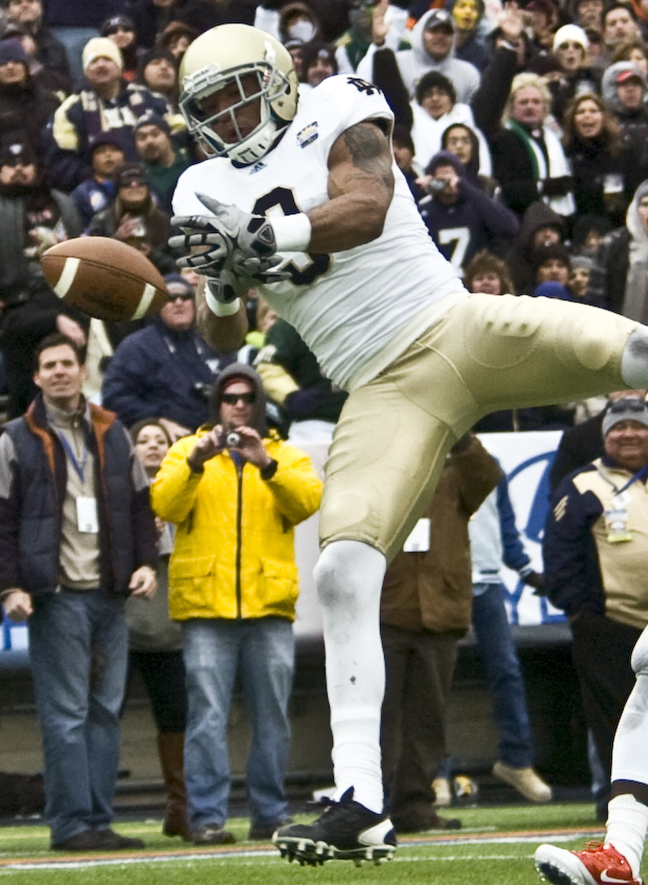 EL PASO, Texas (December 31, 2010) University of Notre Dame wide receiver Michael Floyd battles a University of Miami defensive back for position during the 2010 Hyundai Sun Bowl in El Paso, Dec. 31. Floyd (6 catches, 109 yards, 2 TDs) was named the bowl MVP as the Irish defeated the Hurricanes 33-17.